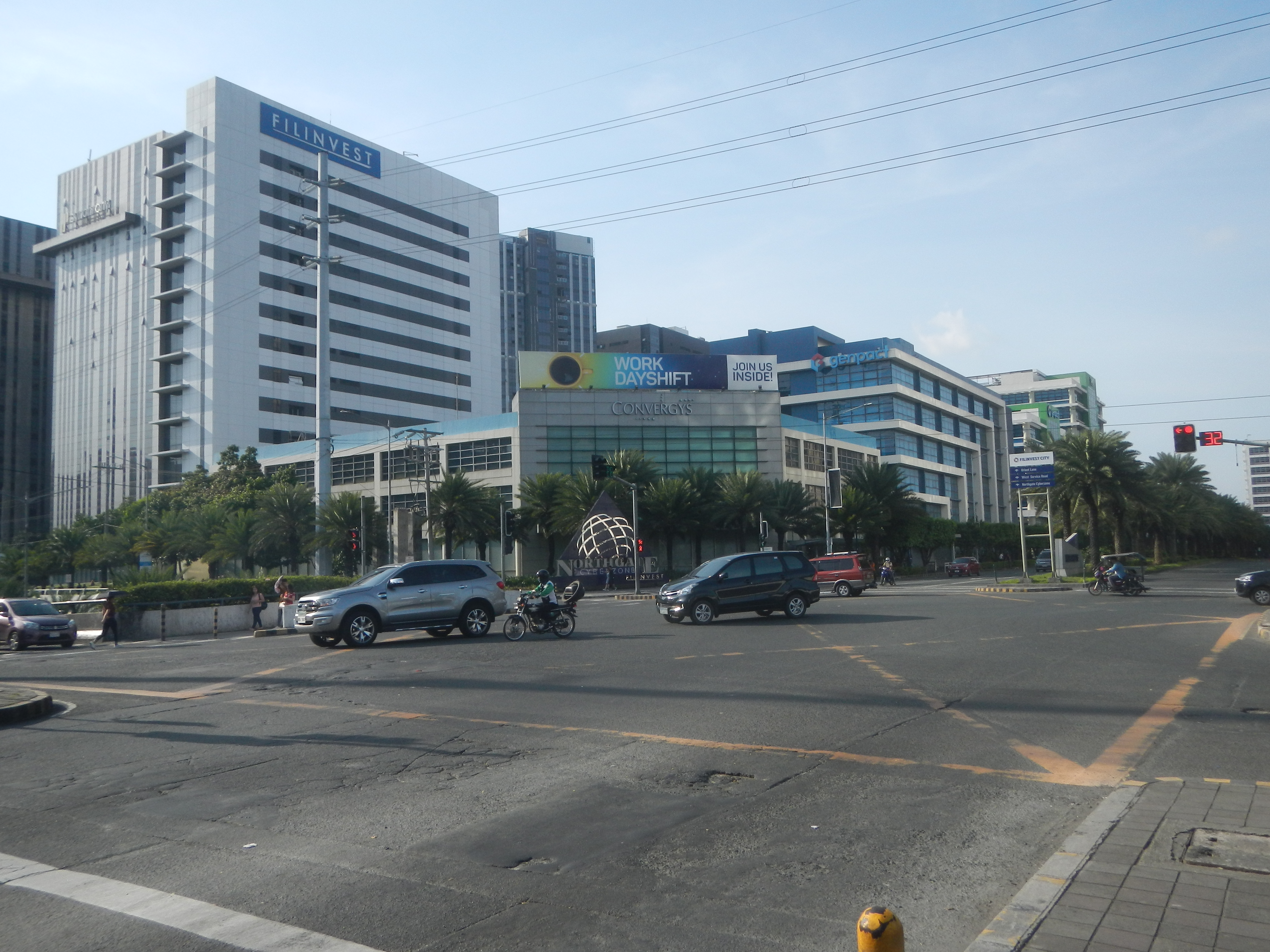 Alabang - Montillano Footbridge - Liwasan ng mga Bayani, Muntinlupa City South Station - Alabang Crimson Hotel - Alabang Alabang-Zapote Road and North Bridgeway (Filinvest City, Northgate, Alabang, Muntinlupa City) AeOn Center (Alabang, Muntinlupa City) The Bellevue (Alabang, Muntinlupa City) Capital One (Filinvest City, Northgate, Alabang, Muntinlupa City) Southkey Place (Filinvest City, Northgate, Alabang, Muntinlupa City) West Service Road (Alabang, Muntinlupa City) Filinvest Barangays Cupang 14°26'1"N 121°2'16"E Alabang 14°24'59"N 121°2'33"E City of Muntinlupa Alabang–Zapote Road Philippine highway network (Note: Judge Florentino Floro, the owner, to repeat, Donor Florentino Floro of all these photos hereby donate gratuitously, freely and unconditionally Judge Floro all these photos to and for Wikimedia Commons, exclusively, for public use of the public domain, and again without any condition whatsoever).